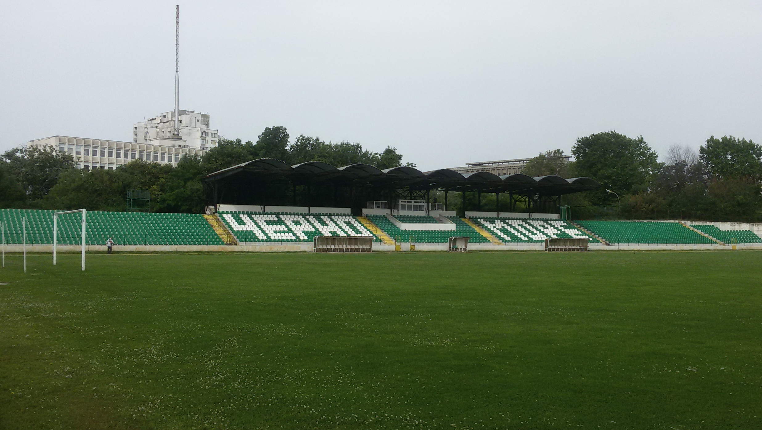 Ticha Stadium, Varna, Bulgaria